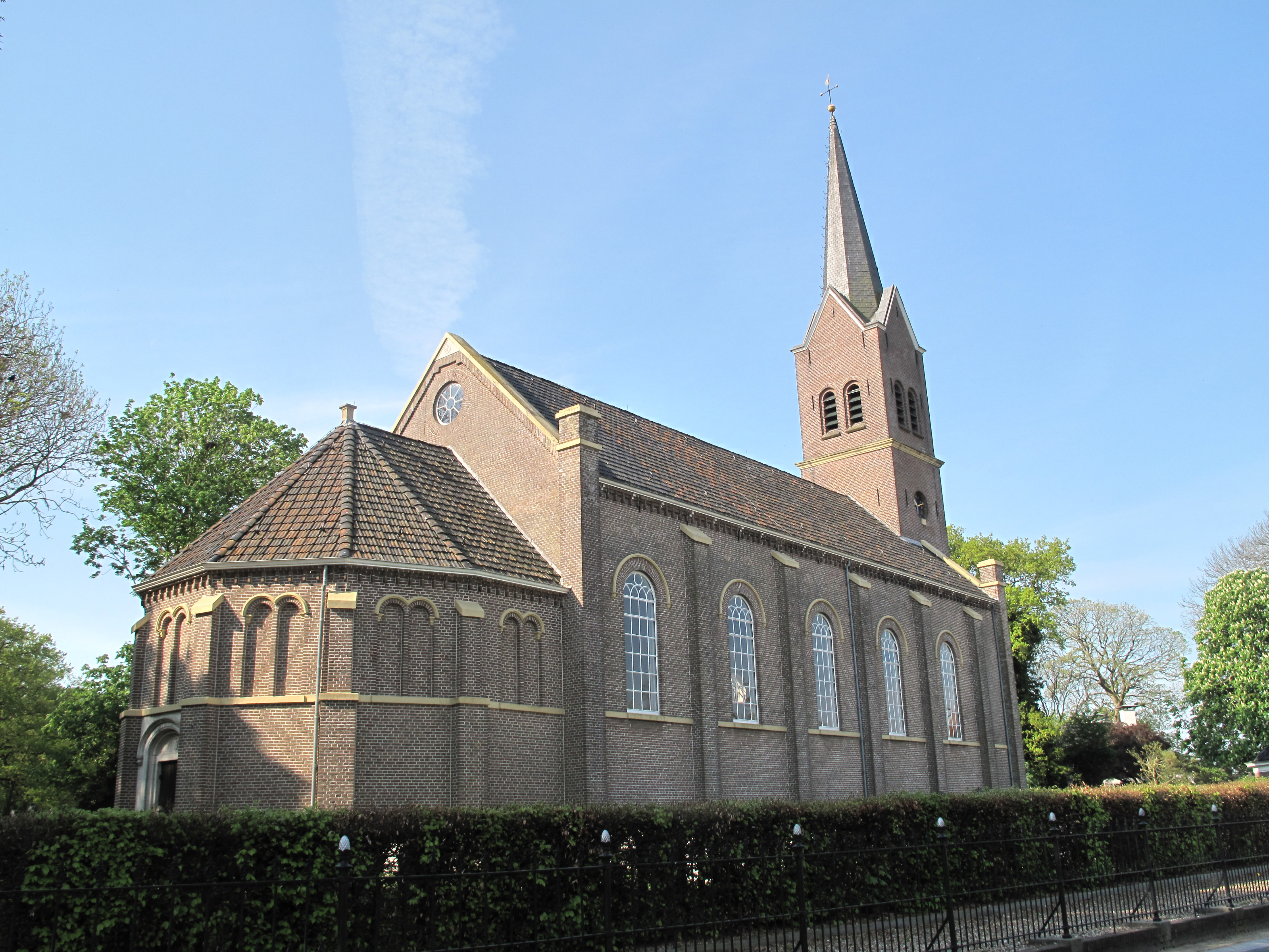 Ysbrechtum, church RM39852